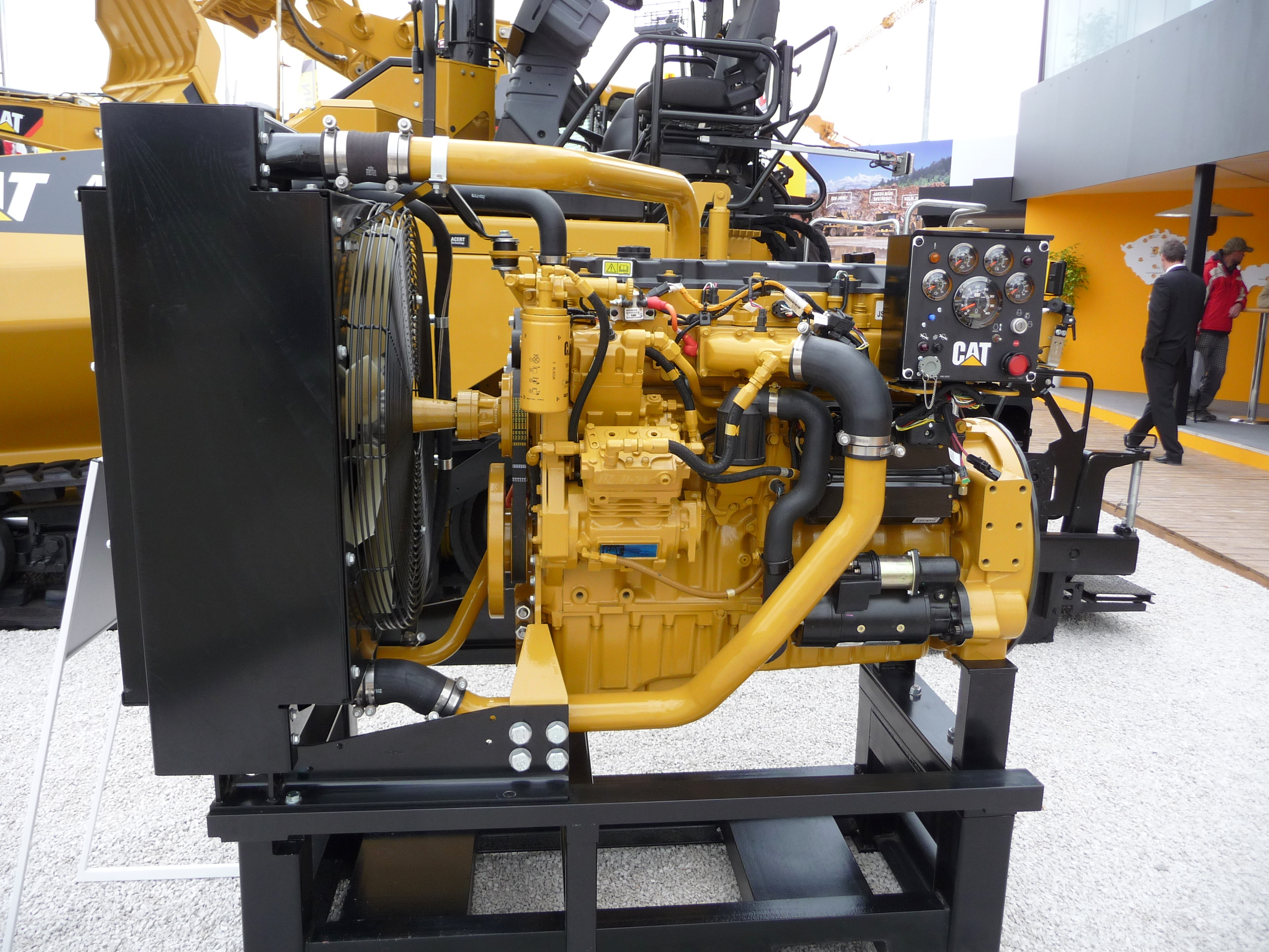 Propulsion engine Caterpillar C9 Acert, Building Fairs Brno 2011 -10-5-3-2◄►+2+3+5+10